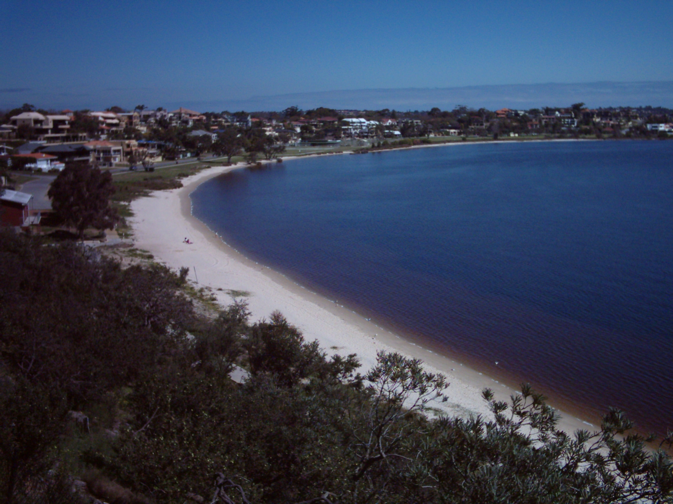 Waylen Bay on the swan river Applecross taken from the former Heathcote Hospital Site. Now the Challenger Tafe site.